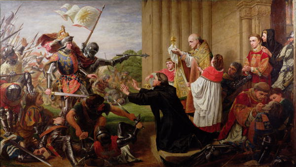 King Edward IV and his Yorkist troops are beseeched by a priest to stop the pursuit of their Lancastrian foes who have requested sanctuary from the abbey.